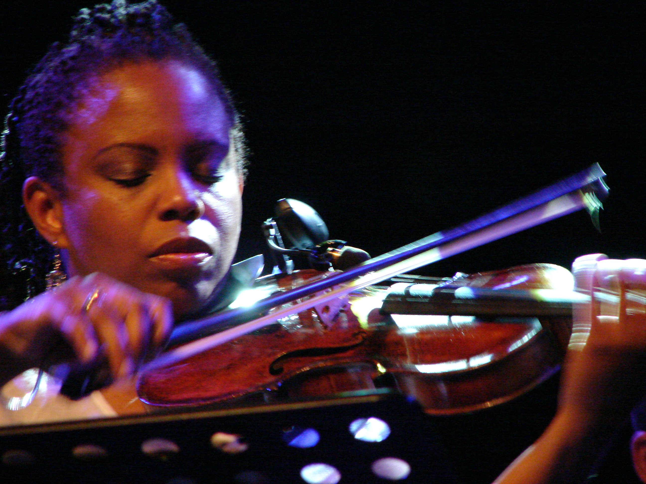 Regina Carter with her quintet at the North Sea Jazz Festival